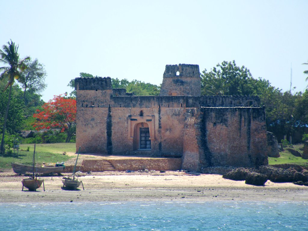 Beginning in the 16th century the Gereza Kilwa Fort at Kilwa Kisiwani, Tanzania, was used by the Portuguese and Omanis to control trade on the East African coast.